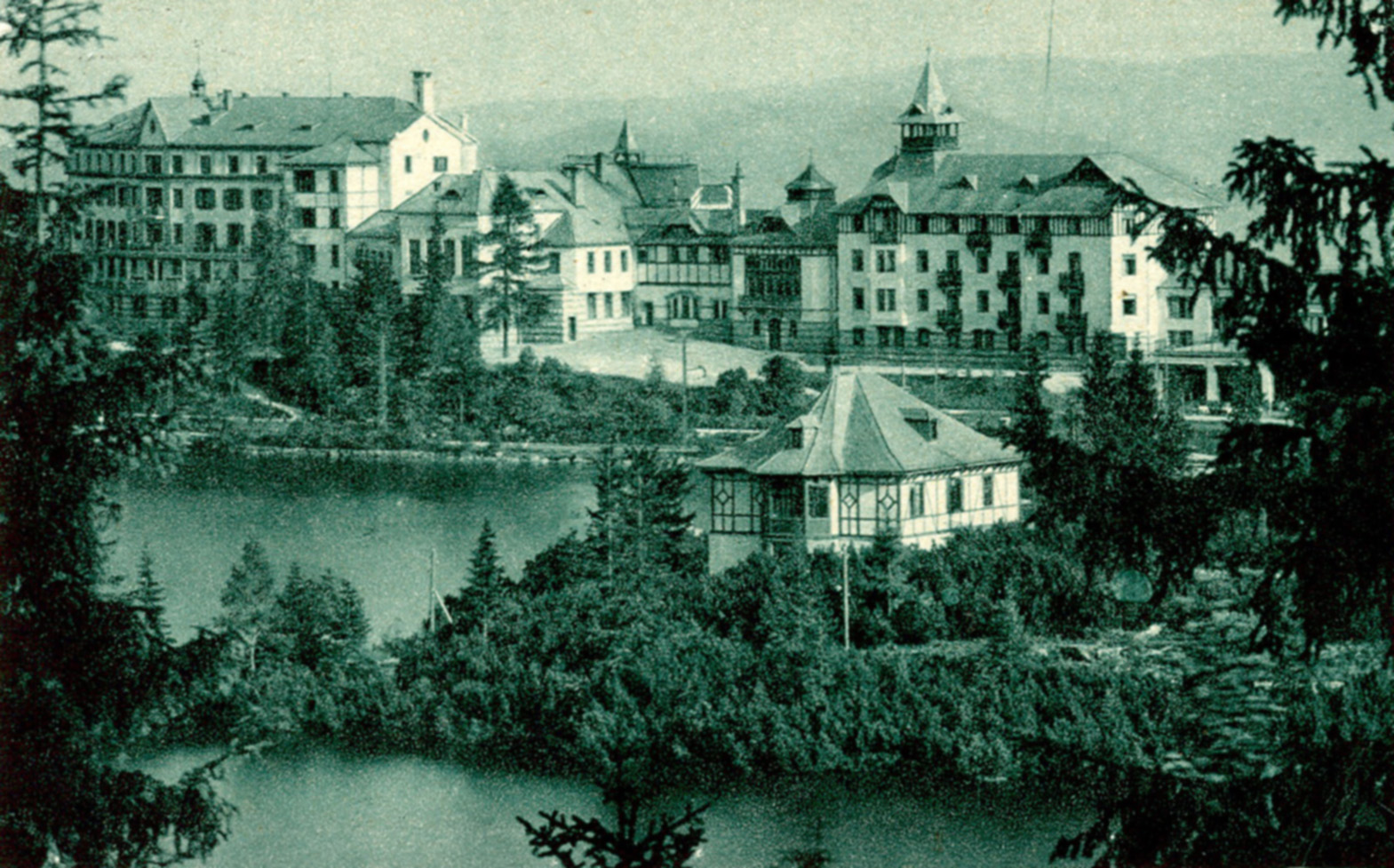 picture of the hotel and its surroundings in the past